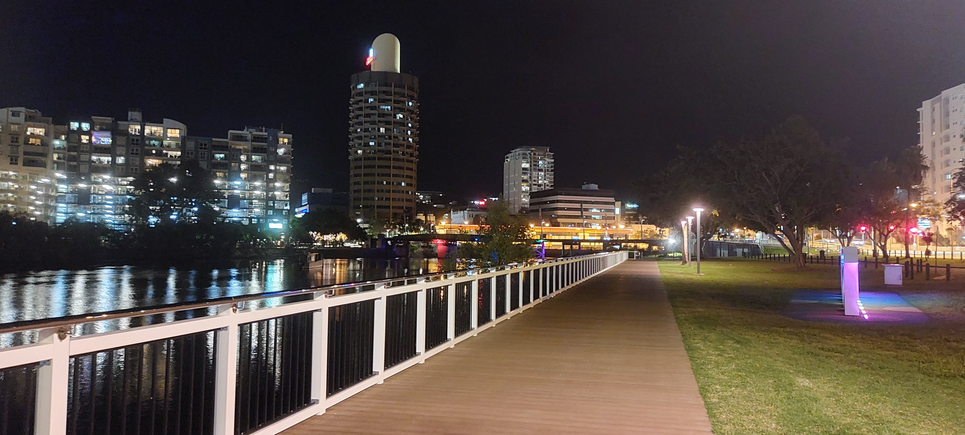 The Skyline of Townsville at night and the waterfront boardwalk in June 2020